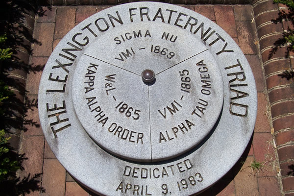 This image shows a monument in Lexington, Virginia to the three college fraternities that trace their roots to that town. It is said that the reason Sigma Nu is the name on the top of the triad marker is because Sigma Nu Fraternity, Inc. paid for establishing the triad marker.